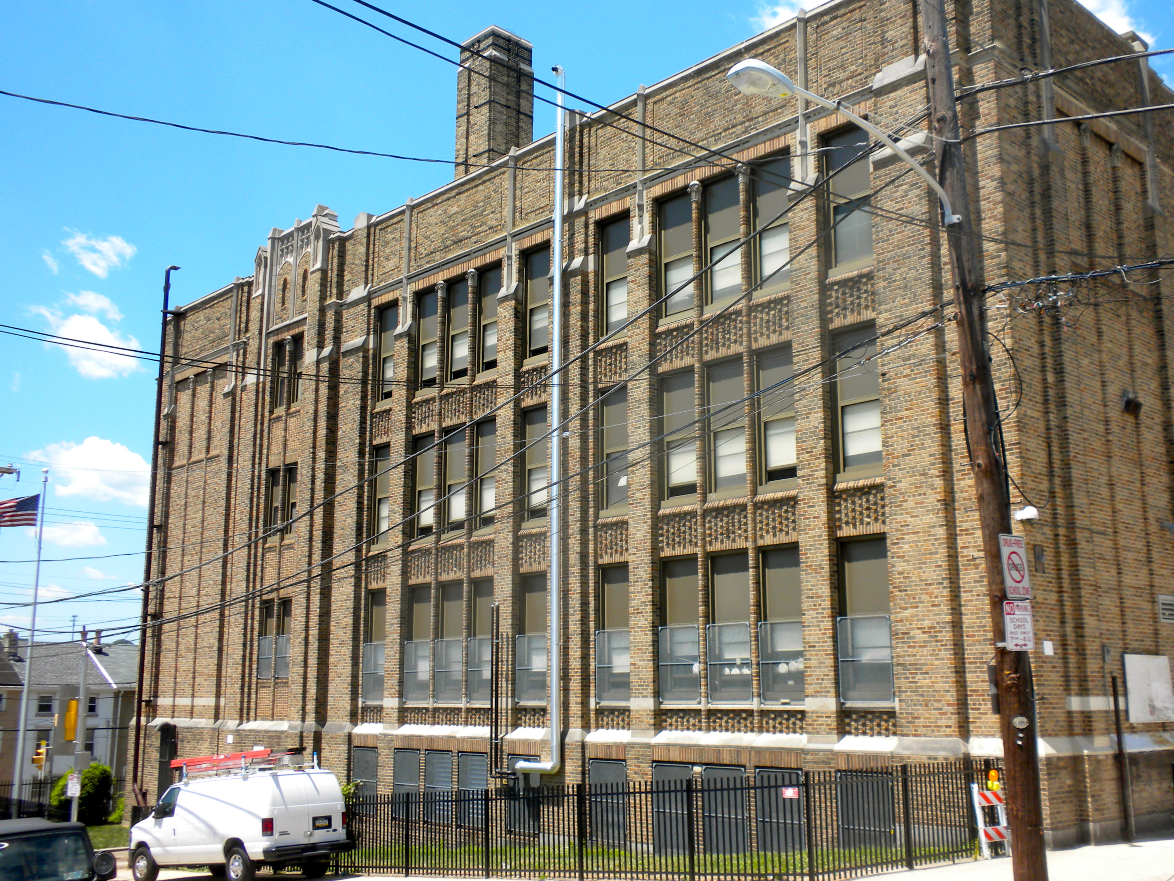 James Dobson School on the NRHP since November 18, 1988. At 4667 Umbria Street in Manayunk neighborhood of NW Philadelphia.